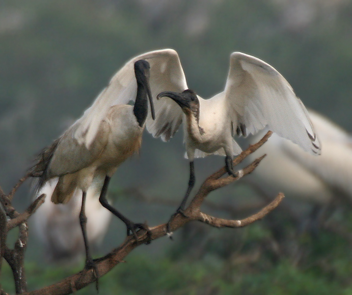 Black-headed Ibis Threskiornis melanocephalus in Uppalapadu, Andhra Pradesh, India.